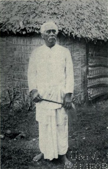 Samoan paramount chief Mataafa 1911